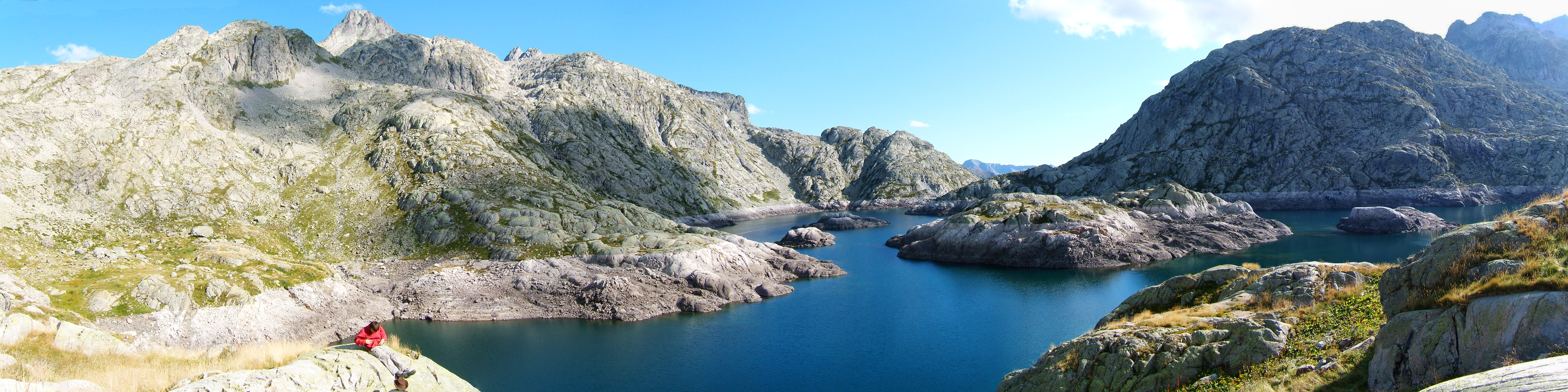 Superior lake of Bachimaña